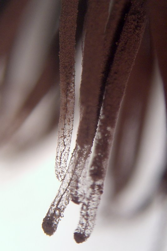 Scientific Name: Stemonitis splendens Common Name: Chocolate Tube Slime Certainty: positive (notes) Location: Central Appalachians; George Washington NF; Shenandoah Mt Tips of chocolate tubes, at 30x.